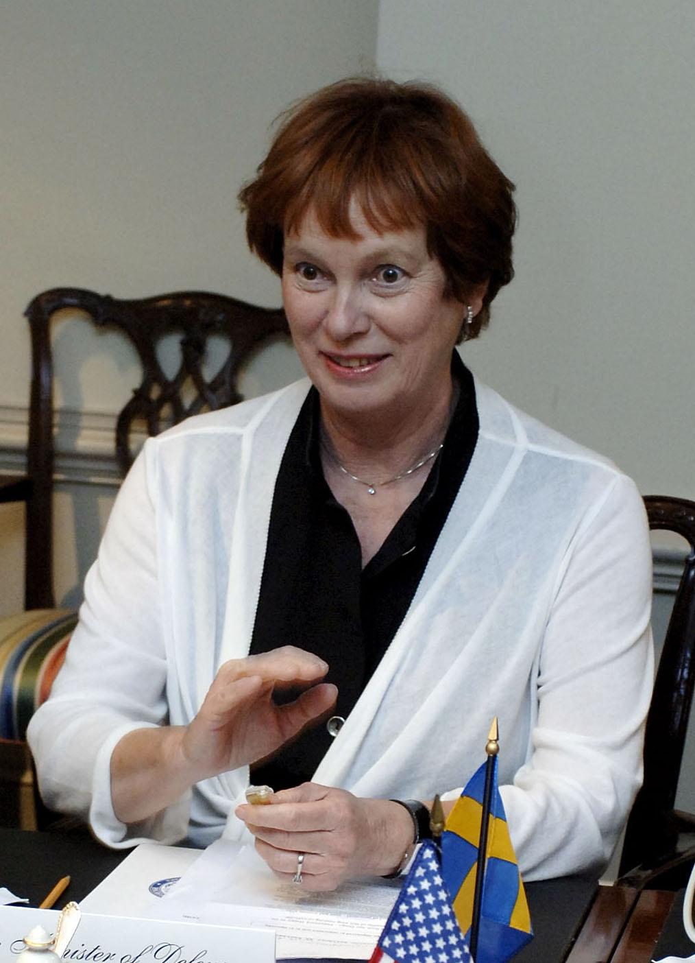 Swedish Minister of Defense Leni Björklund meets with Deputy Secretary of Defense Gordon England (left foreground) in the Pentagon on June 20, 2006. England and Björklund are meeting to discuss defense issues of mutual interest.